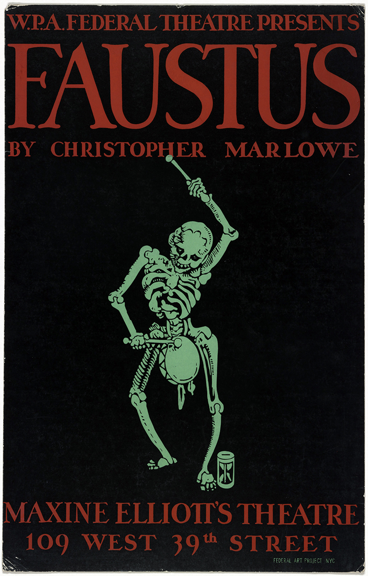 W.P.A. Theatre Presents “Faustus” by Christopher Marlowe, 1937. Silkscreen poster. Federal Theatre Project Collection, Music Division, Library of Congress (011.00.00), Digital ID # ftp0011.The Tragical History of Doctor Faustus (A Federal Theatre Production, Project 891 of the WPA) by Christopher Marlowe. Directed by Orson Welles. Maxine Elliott's Theatre, New York, January 8–May 9, 1937.